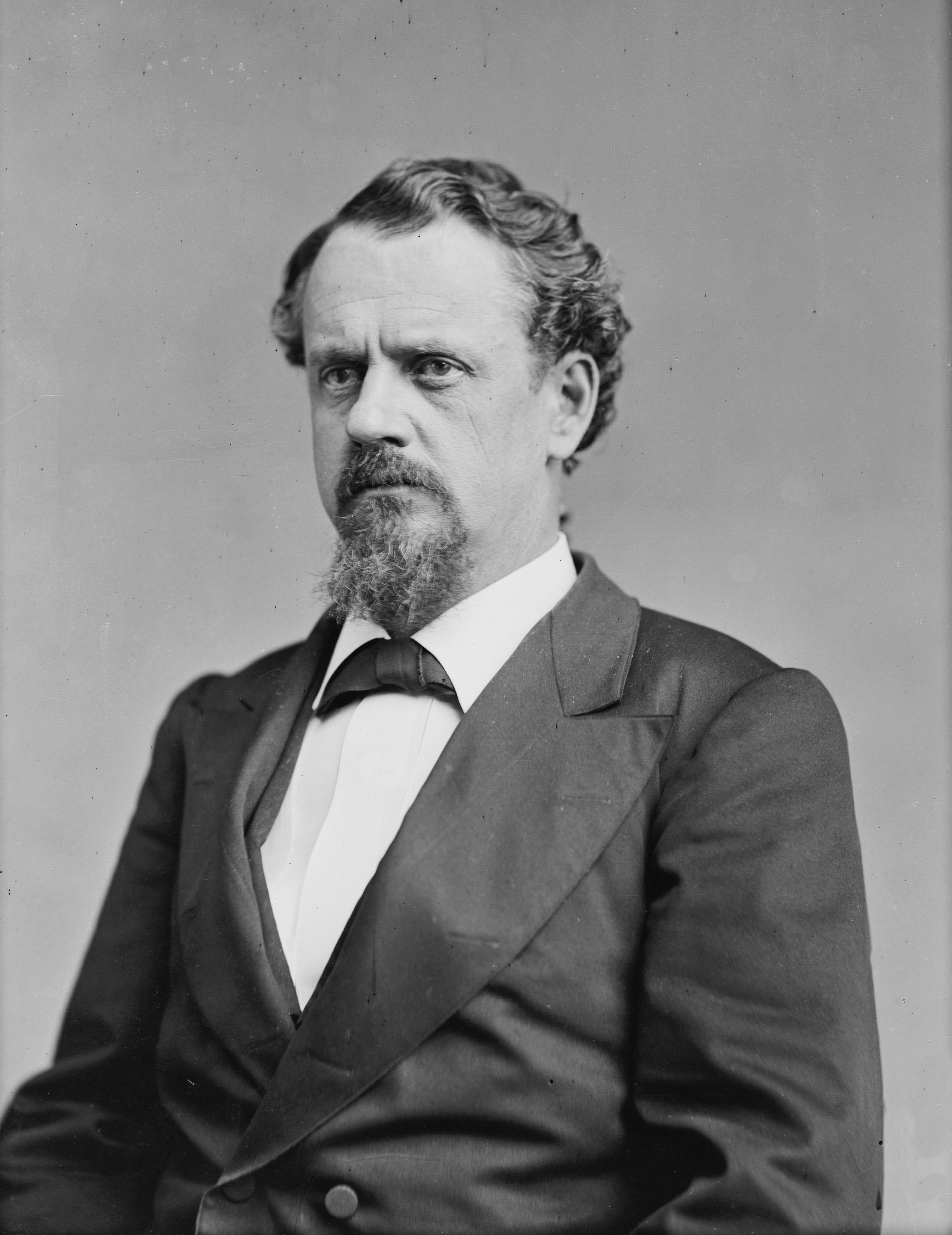 John Y. Brown (1835-1904). Library of Congress description: "Brown, Hon. John Young of Ky. M.C."